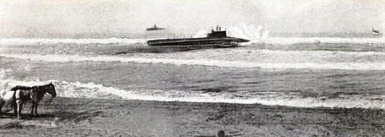 Photograph of the submarine USS F-1 grounded on the beach after slipping her moorings at Monterey Bay California circa 1912